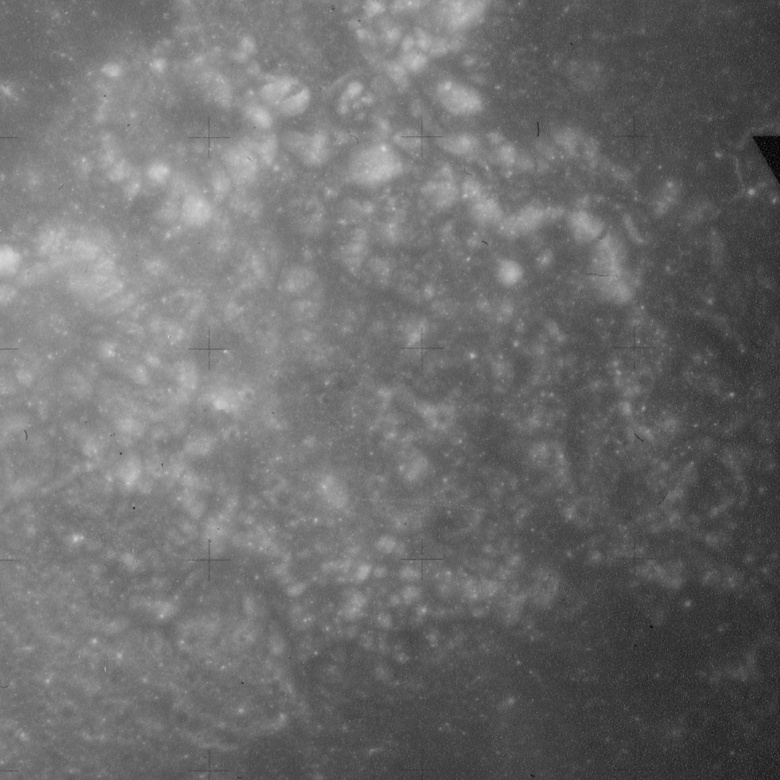 Da Vinci, on the moon. North at top. Altitude 117 km, sun angle 78 deg.